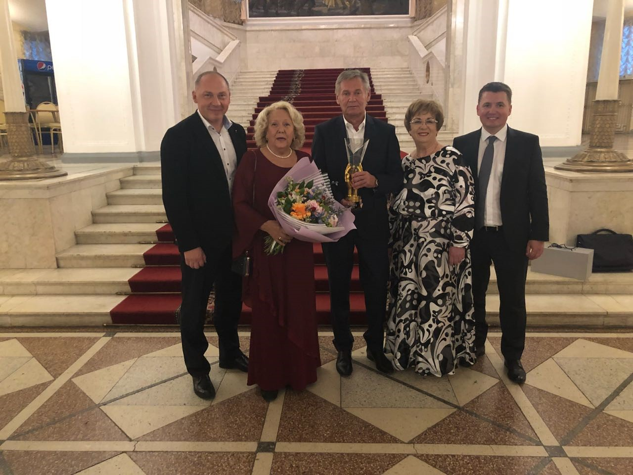 V.I. Kiselev (the center) after the National Prize to the best Russian doctors "Calling" in the "Creating a New Diagnostic Method" nomination award ceremony (2018). From left to right: D. A. Kudlay - General Director, «Generium», JSC, MD, Prof.; V. A. Aksenova - Chief freelance pediatric TB specialist of the Ministry of Health of Russia, MD, Prof.; V.I. Kiselev; L. V. Slogotskaya - Head of the Scientific and Clinical Department, Moscow Сity Scientific and Practical Centre for TB control, State Official Health Institution, MD, Prof.; A. Kurilla - «Generium», JSC, employee